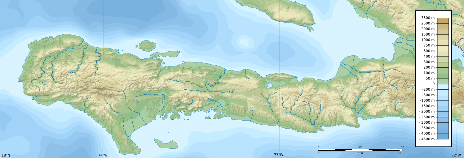 Topographic map of Tiburon Peninsula, Haiti